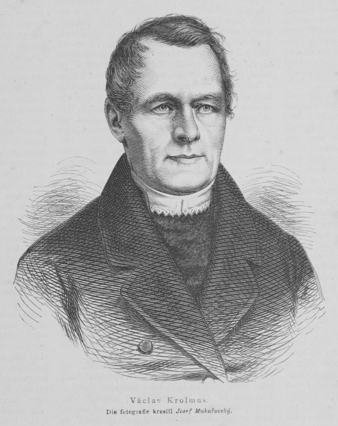 Portrait of Václav Krolmus, Czech priest, writer and collector of folk poetry.